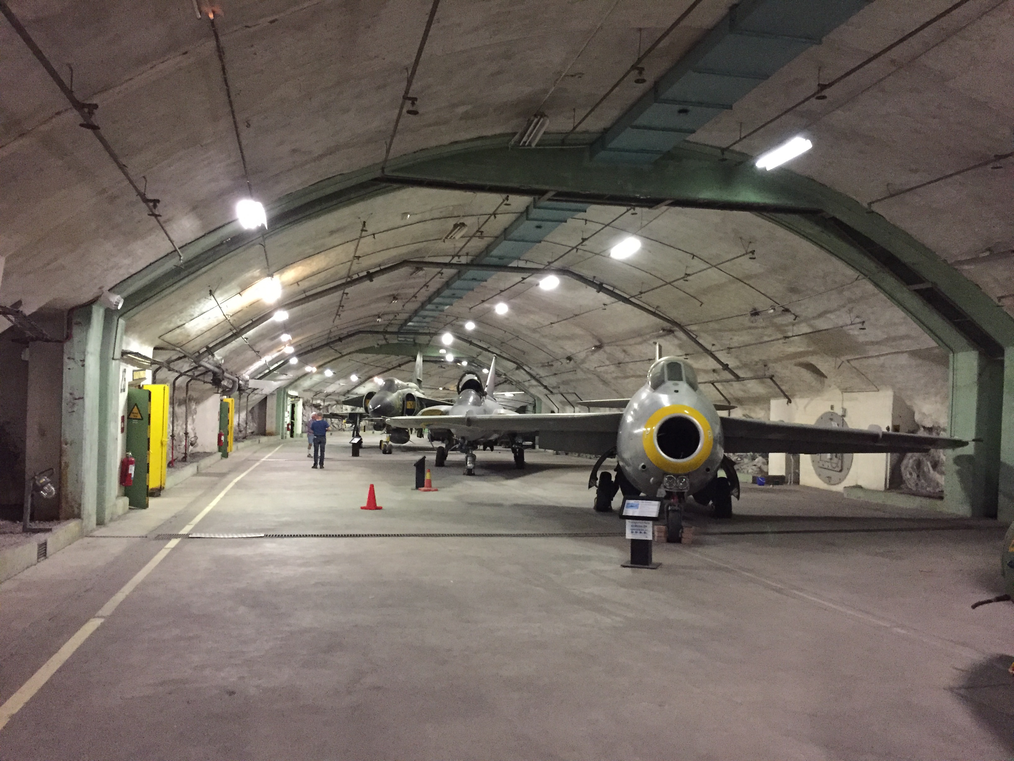 View into the aircraft shelter at Gothenburg Säve airport, nowadays a museum